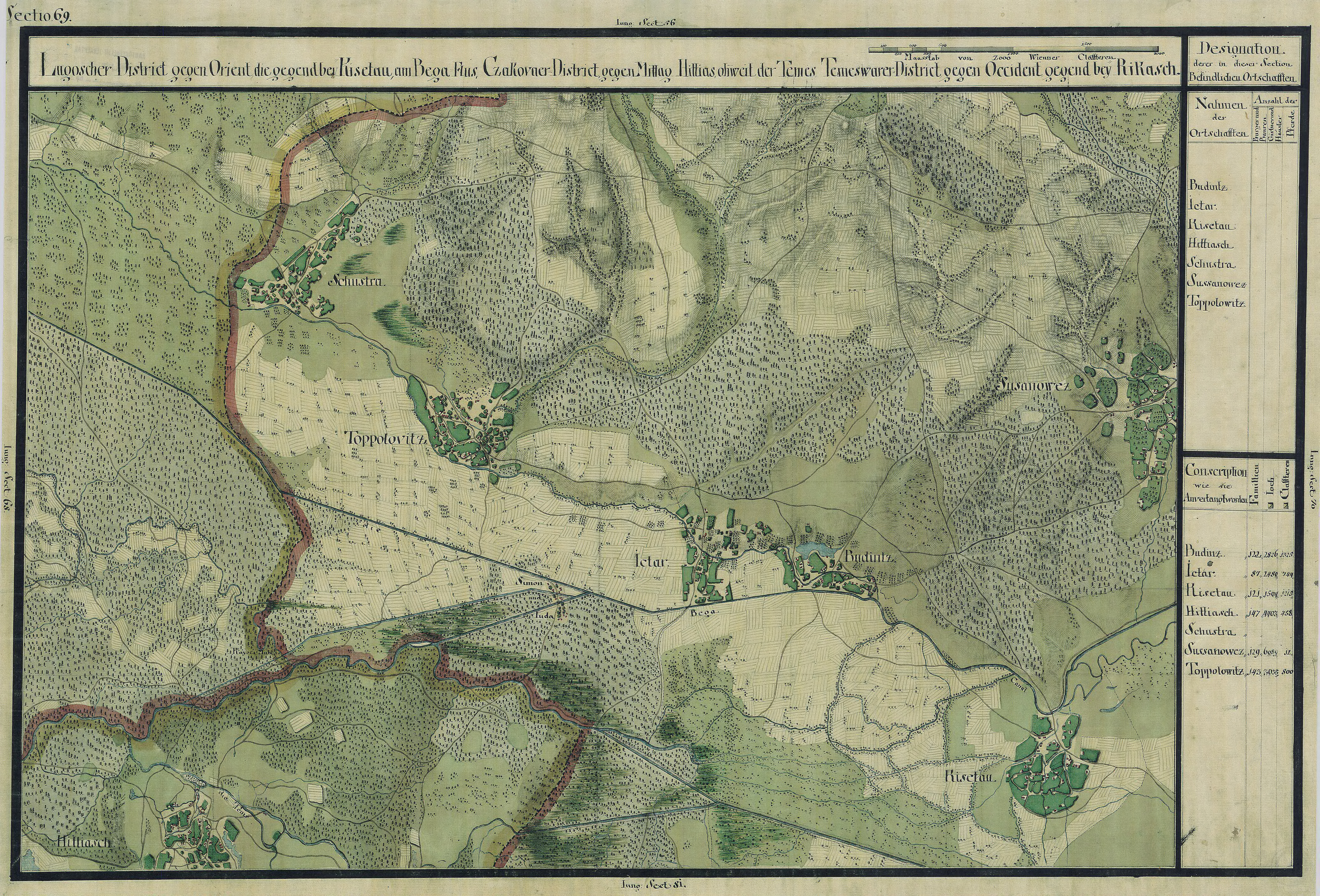 The Banat region in the cadastral maps: Josephinische Landesaufnahme, 1769-72. Josephinische Landaufnahme pg069